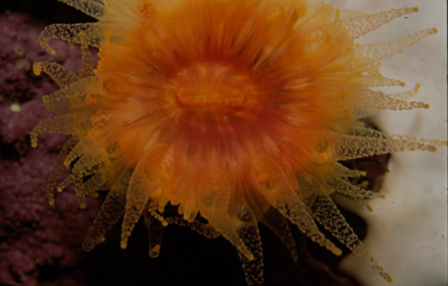 A photograph of the cup coral, Balanophyllia bonaespei taken in 20m of water in False Bay off Cape Town South Africa using a Nikonos V camera